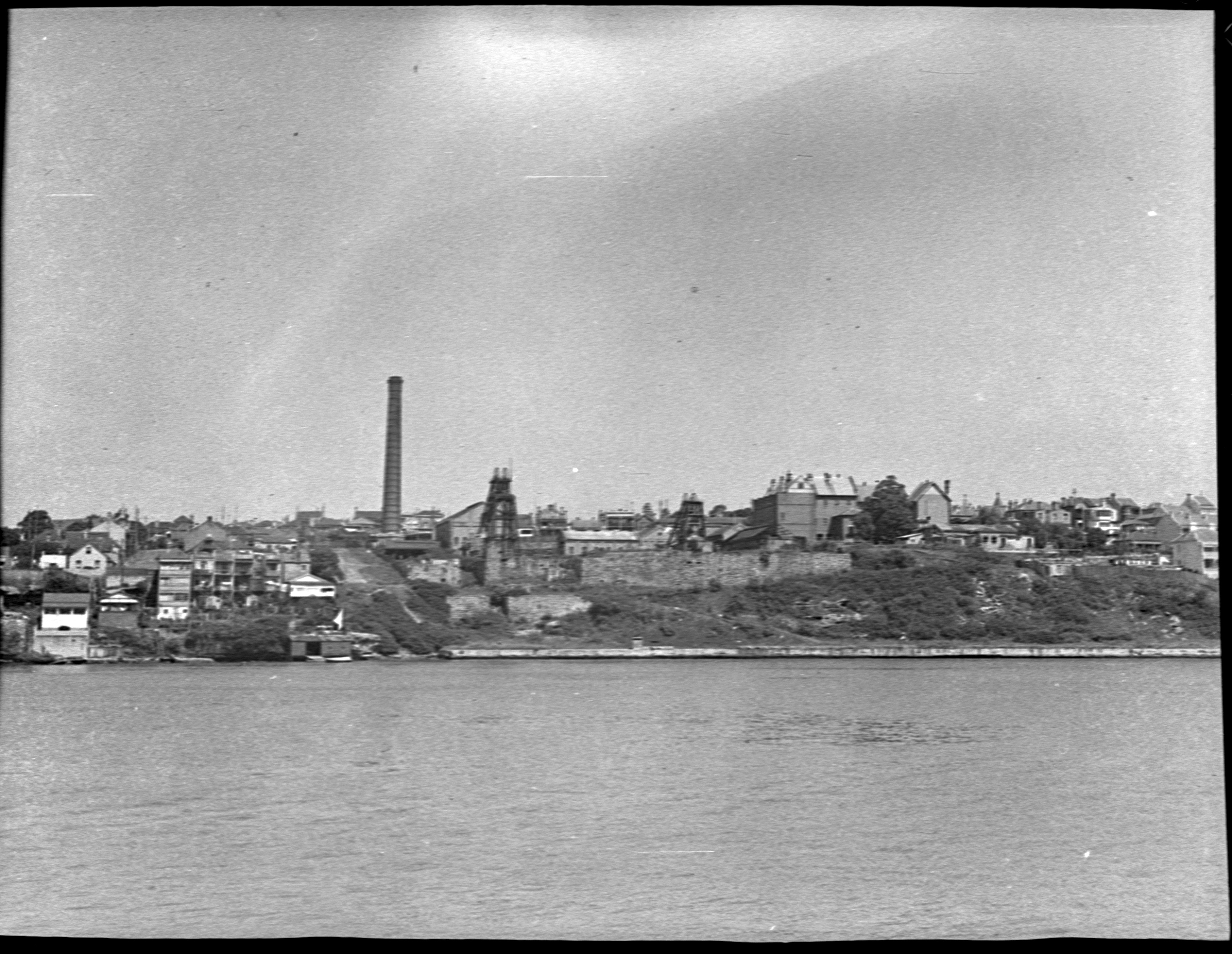 Balmain Coal Mine (for L.J. Hooker Ltd.)